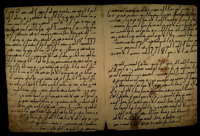 An Early Qur'anic Manuscript (1st century Hegira). From end of verse 49 of Surah al-Shura to verse 31 of Surah al-Zukhruf and part of 32. Script: Hijazi. Location: Maktabat al-Jami‘ al-Kabir, Sanaa (Yemen).